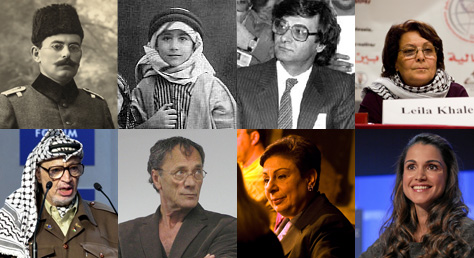 Notable Palestinians for the infobox. From left to right: Tawfiq Canaan, Edward Said, Mahmoud Darwish, Leila Khaled, Yassir Arafat, Mohammad Bakri, Hanan Ashrawi, Queen Rania of Jordan.